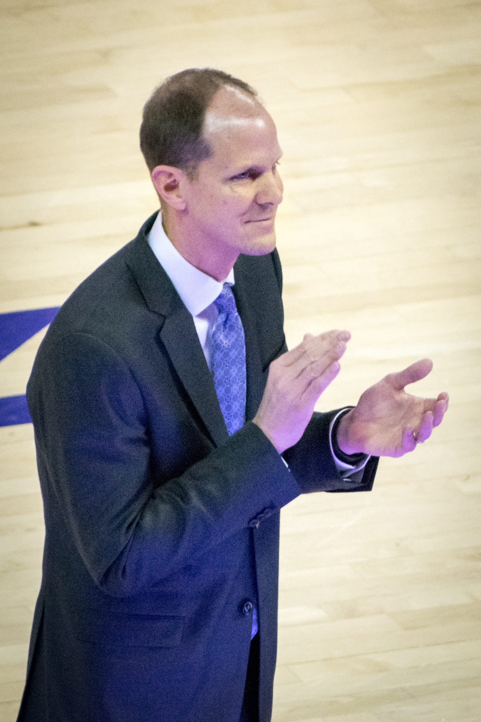 Mike Hopkins, Head Coach of the Washington Huskies Men's Basketball team